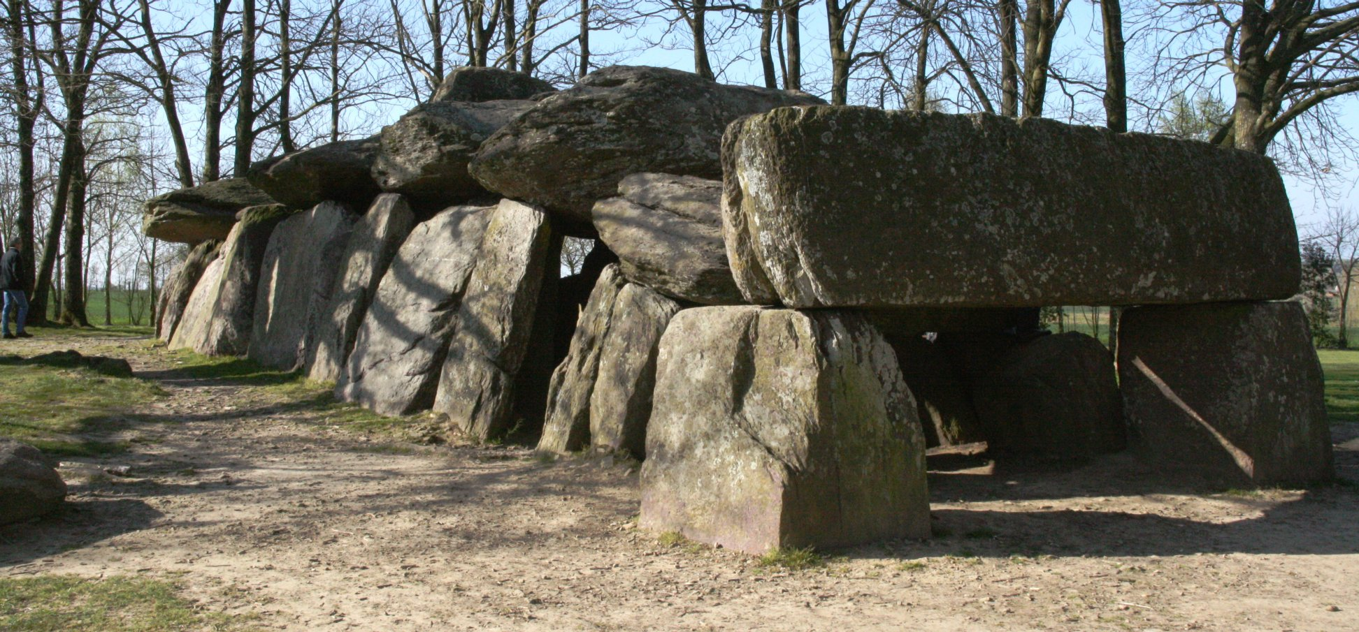 La Roche-aux-Fées, village of Essé, Ille-et-Vilaine, Brittany, France. It's a dolmen (gallery grave), the biggest in France, built near 2500 ~ 2000 B.C.